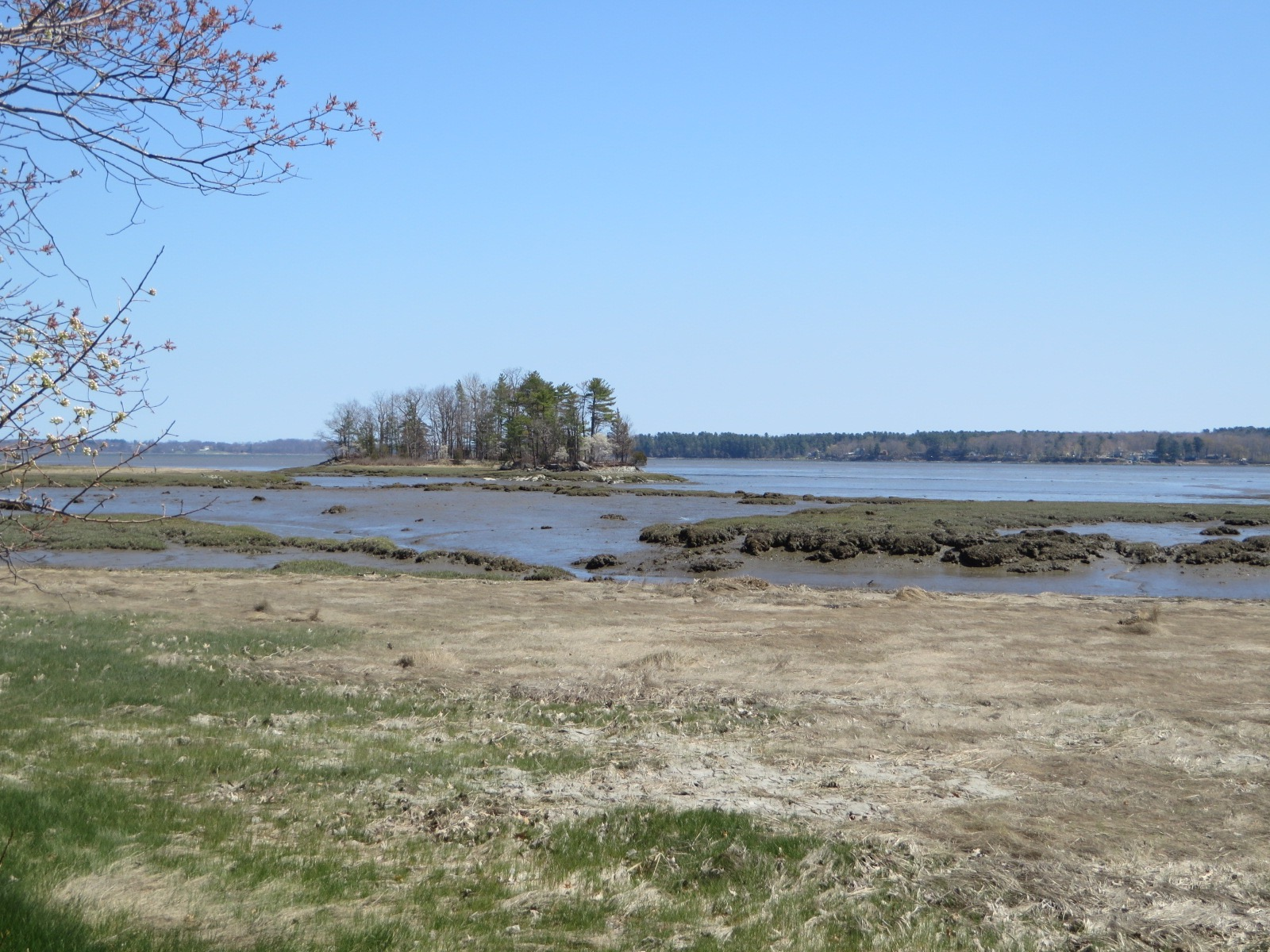 Great Bay (New Hampshire) viewed from Lubberland Creek tidal marsh, April 2016